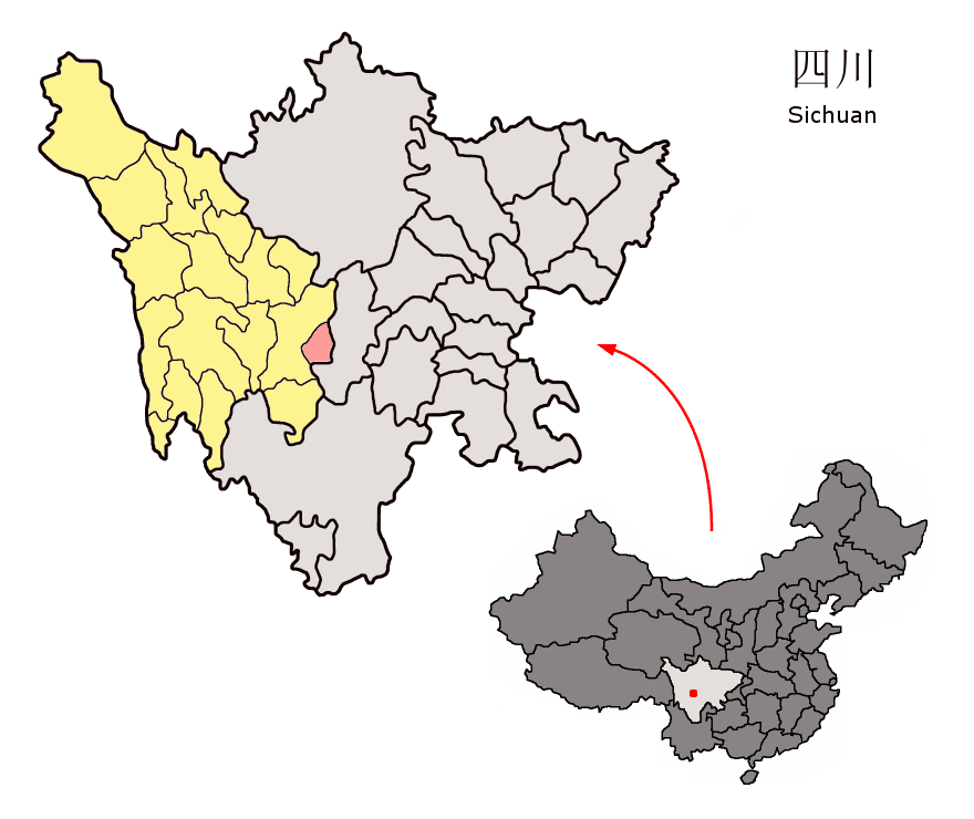 Location of Luding County (pink) and Garzê Prefecture (yellow) within Sichuan province of China Map drawn in september 2007 using various sources, mainly : Sichuan province administrative regions GIS data: 1:1M, County level, 1990 Sichuan Counties map from